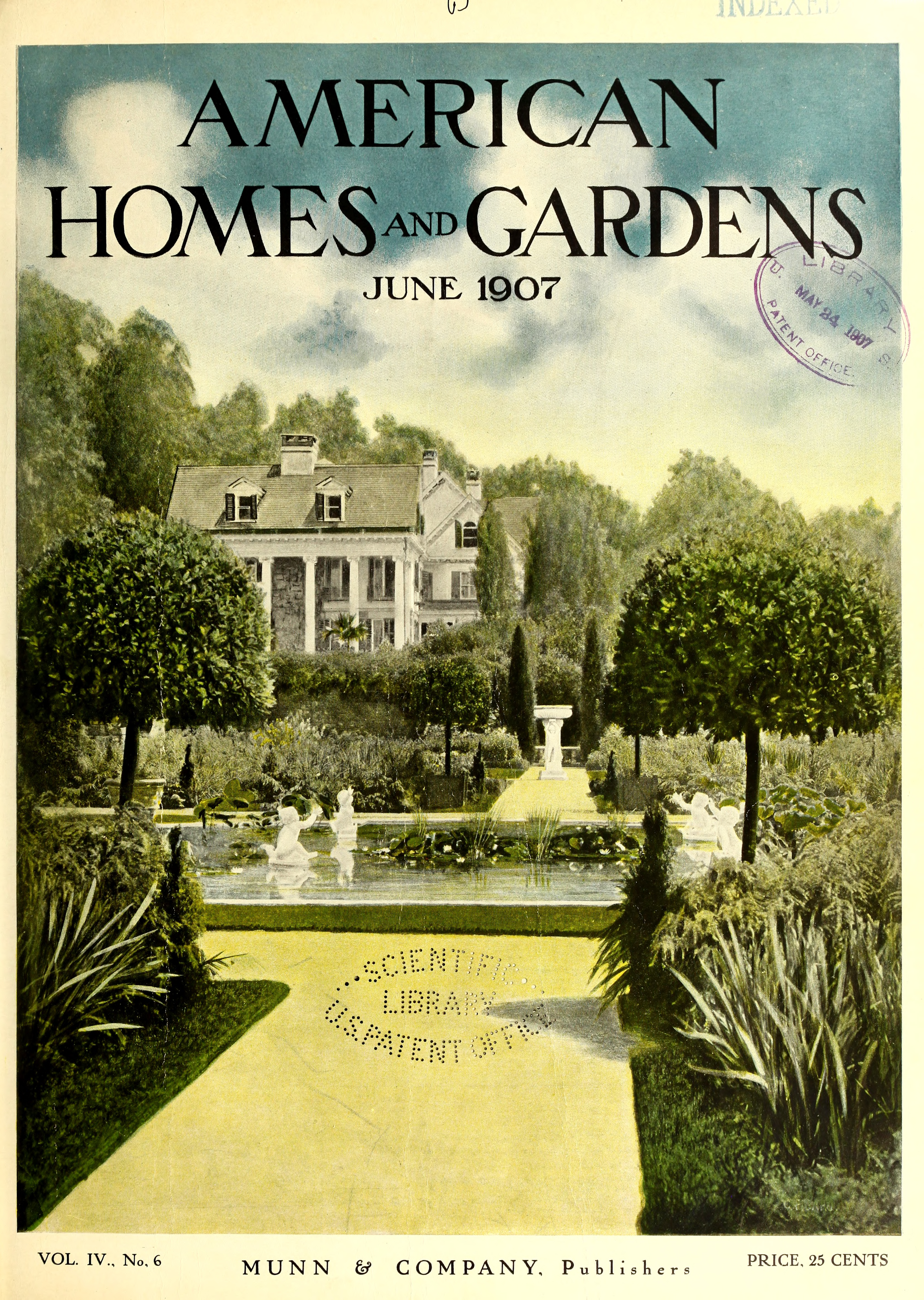 Cover of the June 1907 issue of American Homes and Gardens magazine